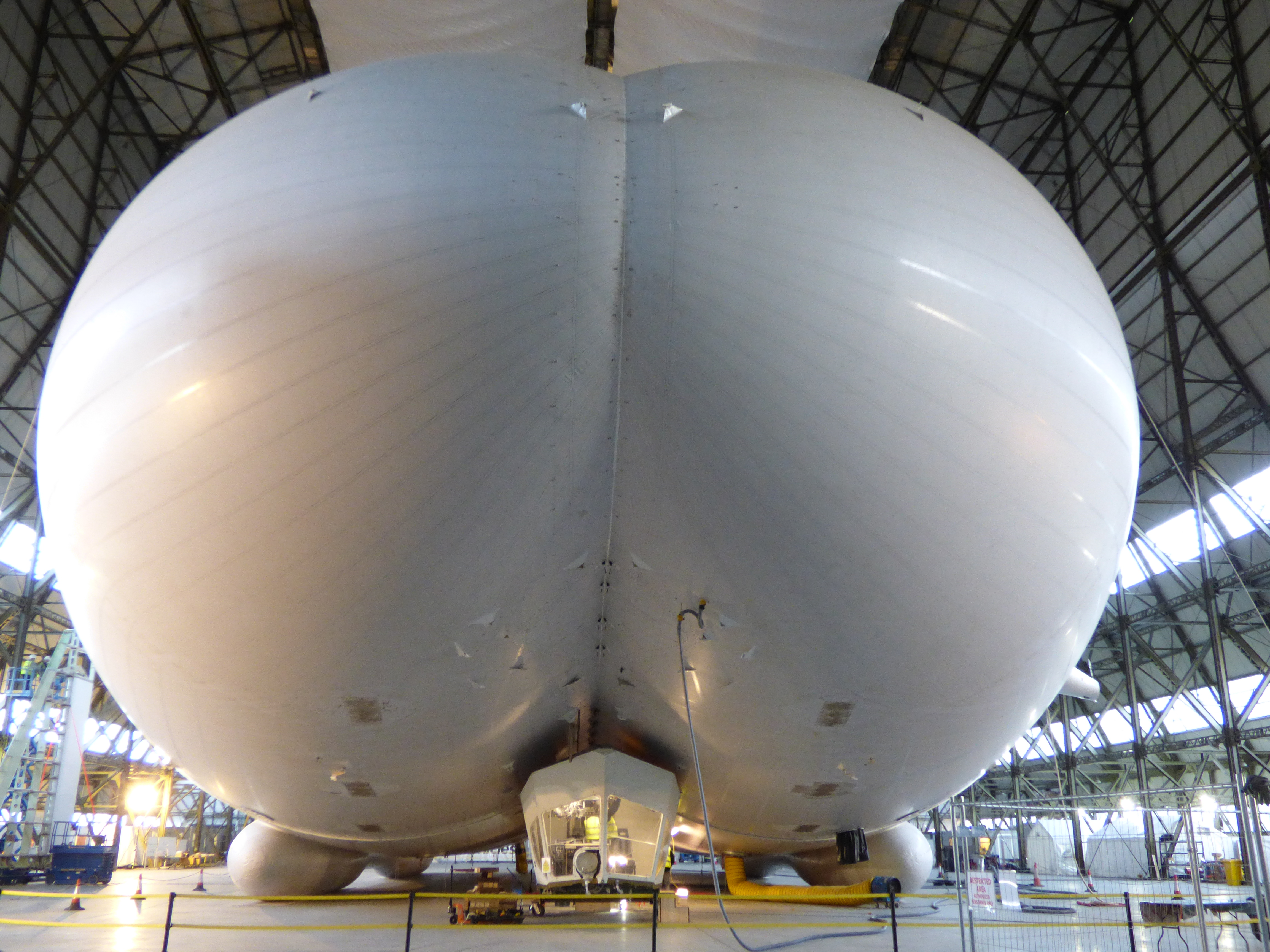 Airlander 10 - Mission Module Fitting